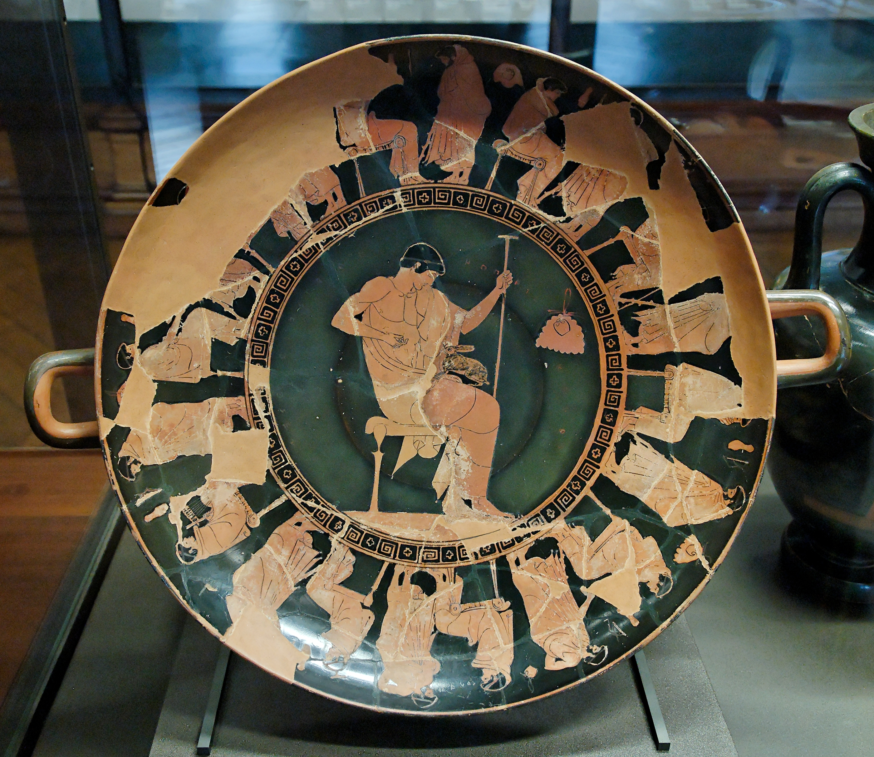 Scenes of pederastic courtship. Tondo from an Attic red-figure kylix.